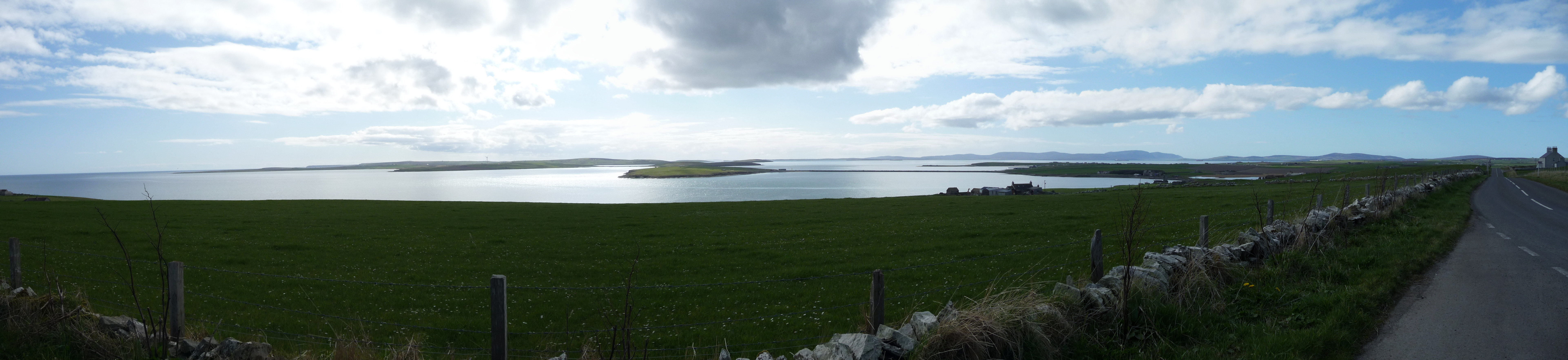 Panoramic view of Churchill Barriers 1,2 & 3